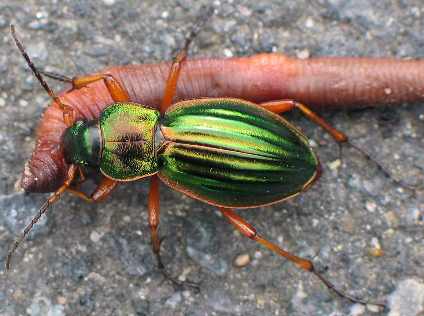 Carabus auratus with prey in Northern Germany